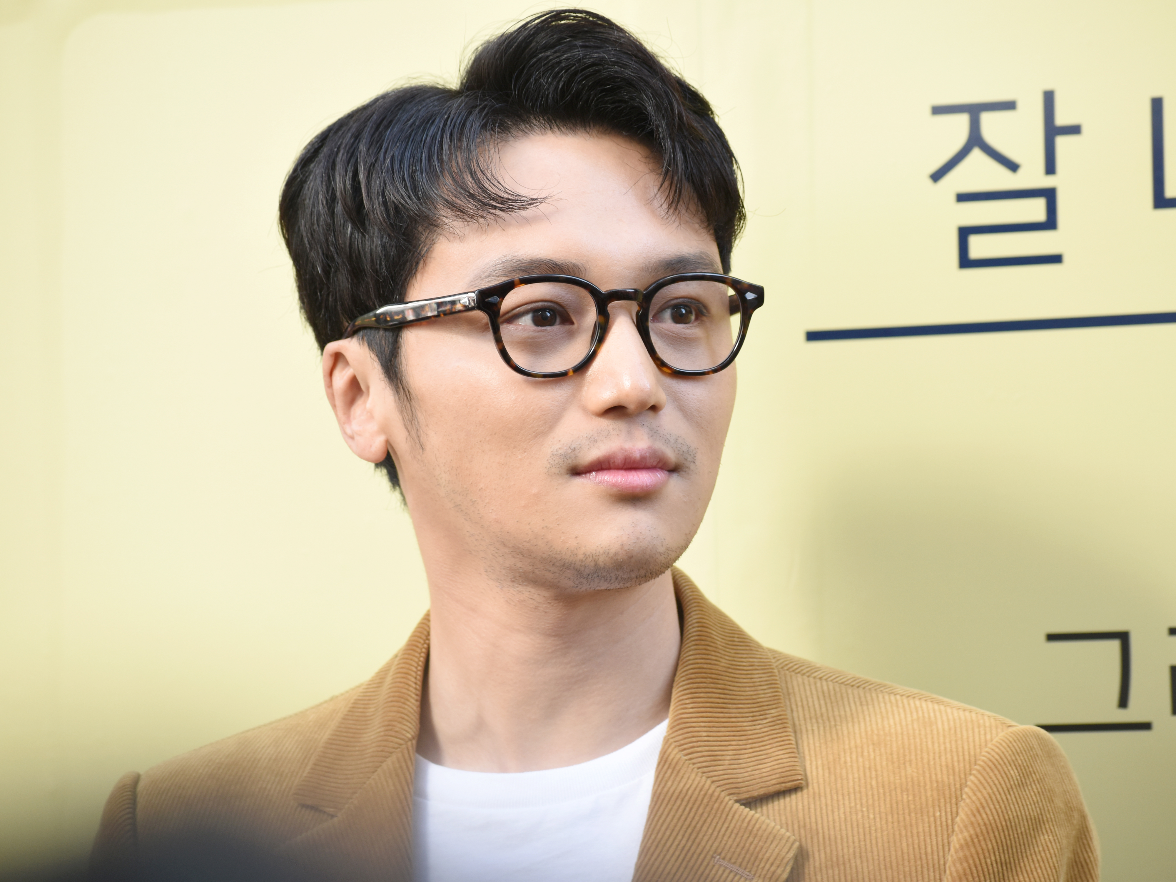 Byun Yo-han at a fansign event at the Olive Young branch in Myeongdong on October 27, 2018.